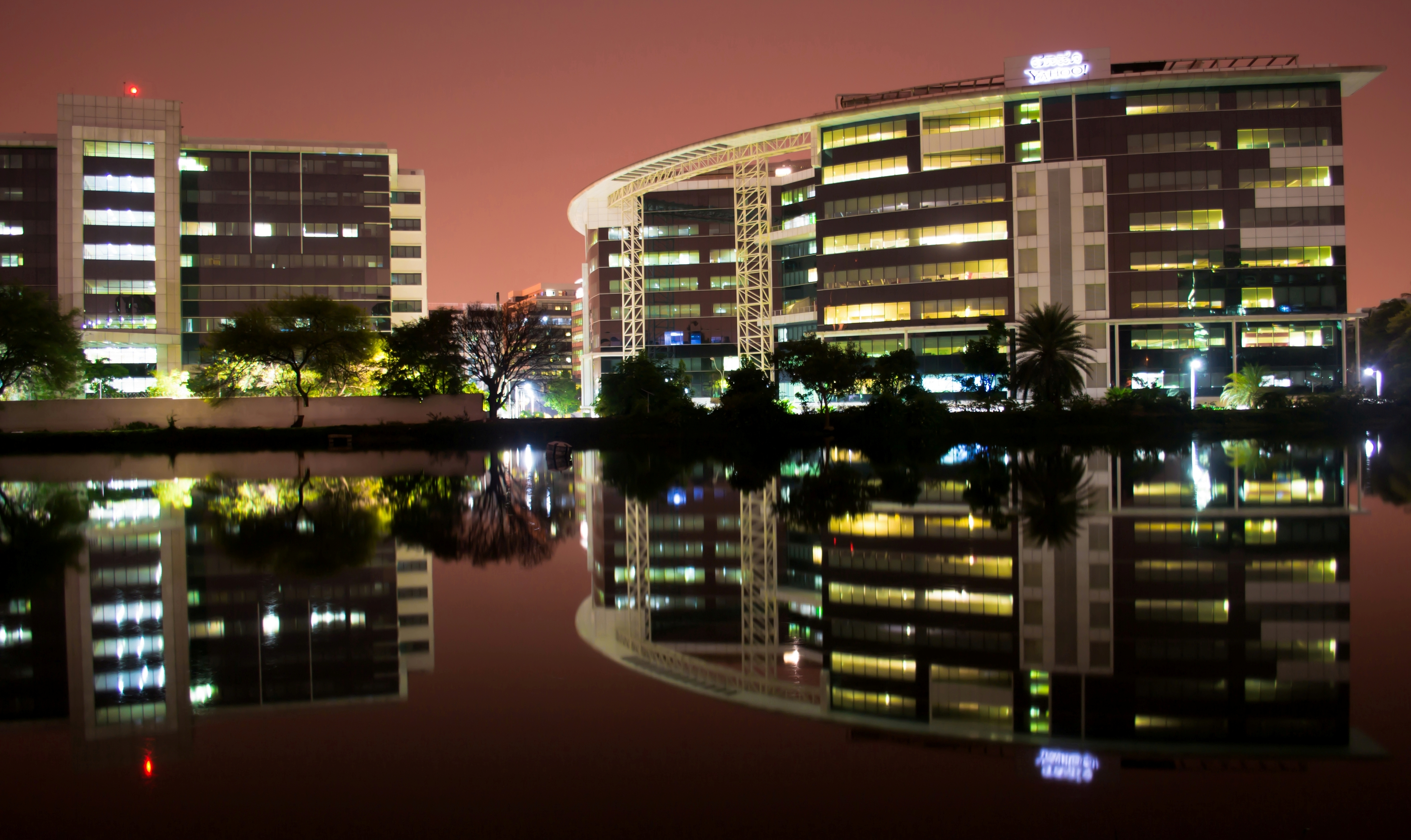 Yahoo Office at Bhagmane Tech Park, Bangalore